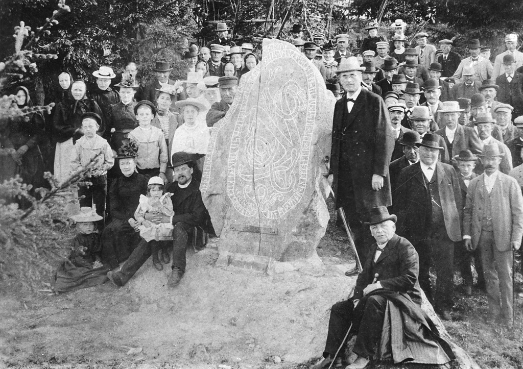 Feast to celebrate the mending and re-erection of a rune stone (Vs 24) in Hassmyra. The inscription says: "The good husbandman Holmgöt had (the stone) raised in memory of Odendisa, his wife. There will come to Hassmyra no better housewife, who arranges the estate. Rödballe carved these runes. Odendisa was a good sister to Sigmund".